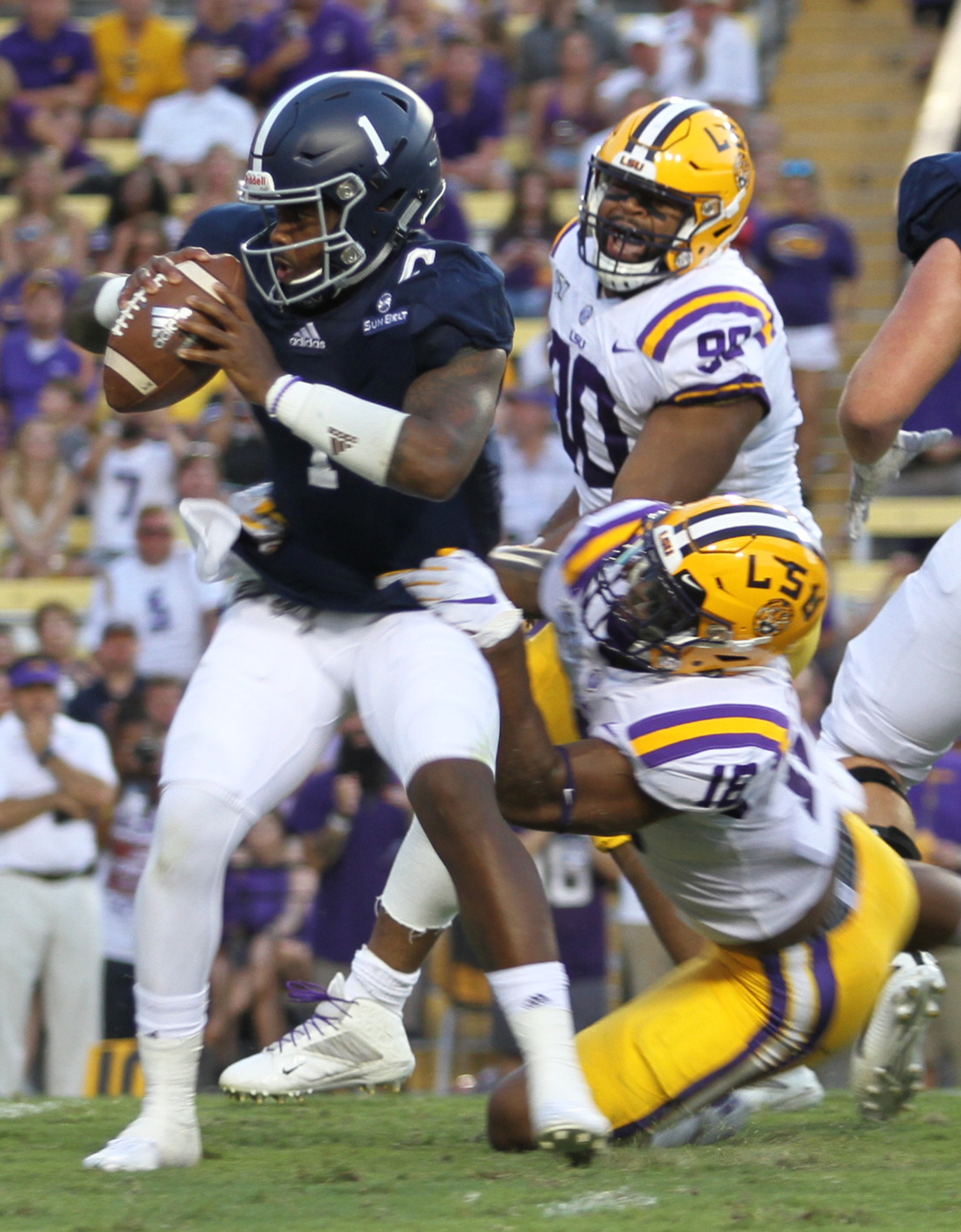 Georgia Southern Eagles quarterback Shai Werts, #1, @_shaiwertss, LSU Tigers vs Georgia Southern Eagles, August 31, 2019, Tiger Stadium, Baton Rouge, Louisiana, Tammy Anthony Baker, Photographer @tmabaker @tabinla